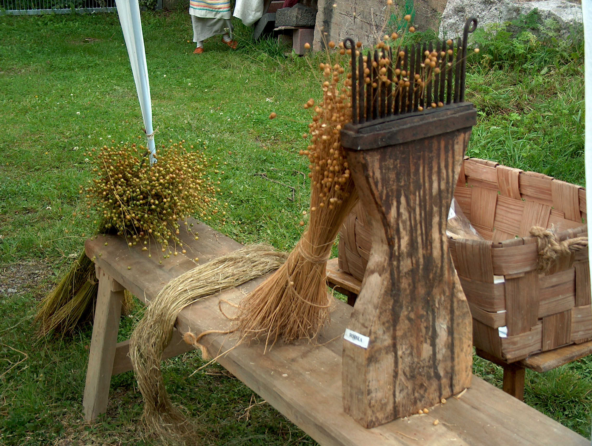 Flax and a tool at Anttila Harvest Market in Tuusula, Finland